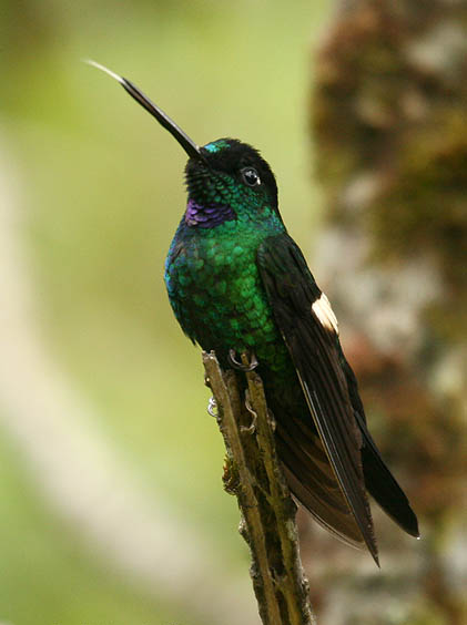 Male Buff-Winged Starfrontlet (Coeligena lutetiae) (note the tongue sticking out). Yanacocha, Ecuador. 3/8/2007